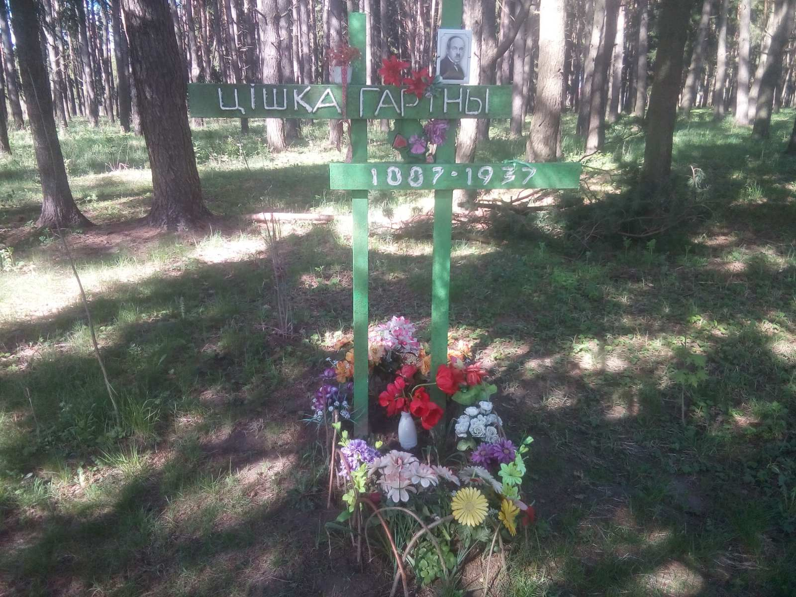 The grave of Tsishka Hartny in the Piačerski Forest Park (Mahiliow, Belarus; May 8th, 2020)